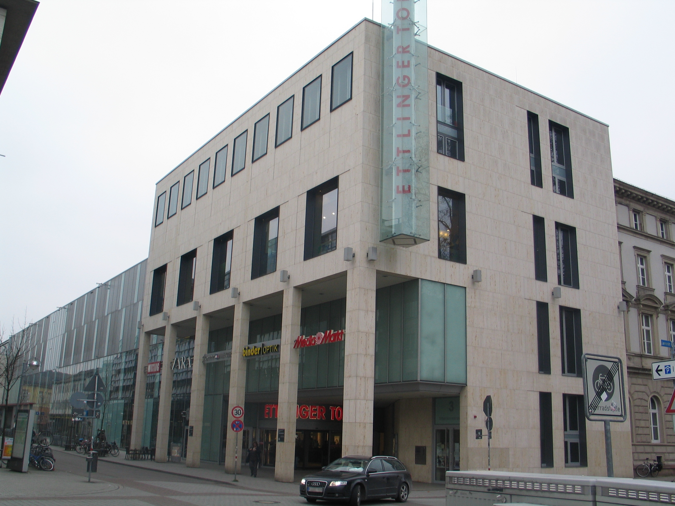 Shopping centre Ettlinger Tor Karlsruhe